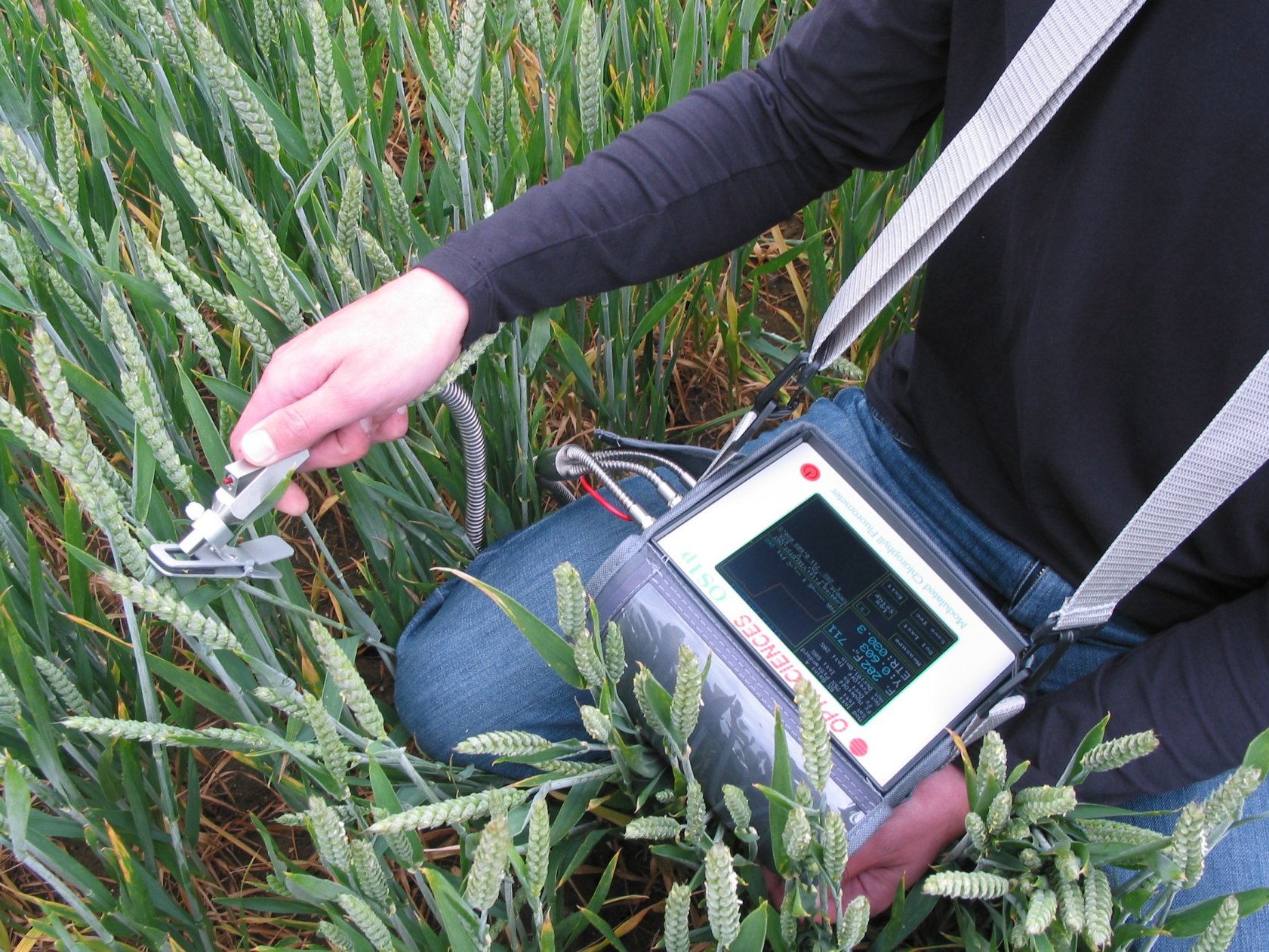 OS1p modulated fluorometer measuring photosynthetic yield Y(II) in the field.